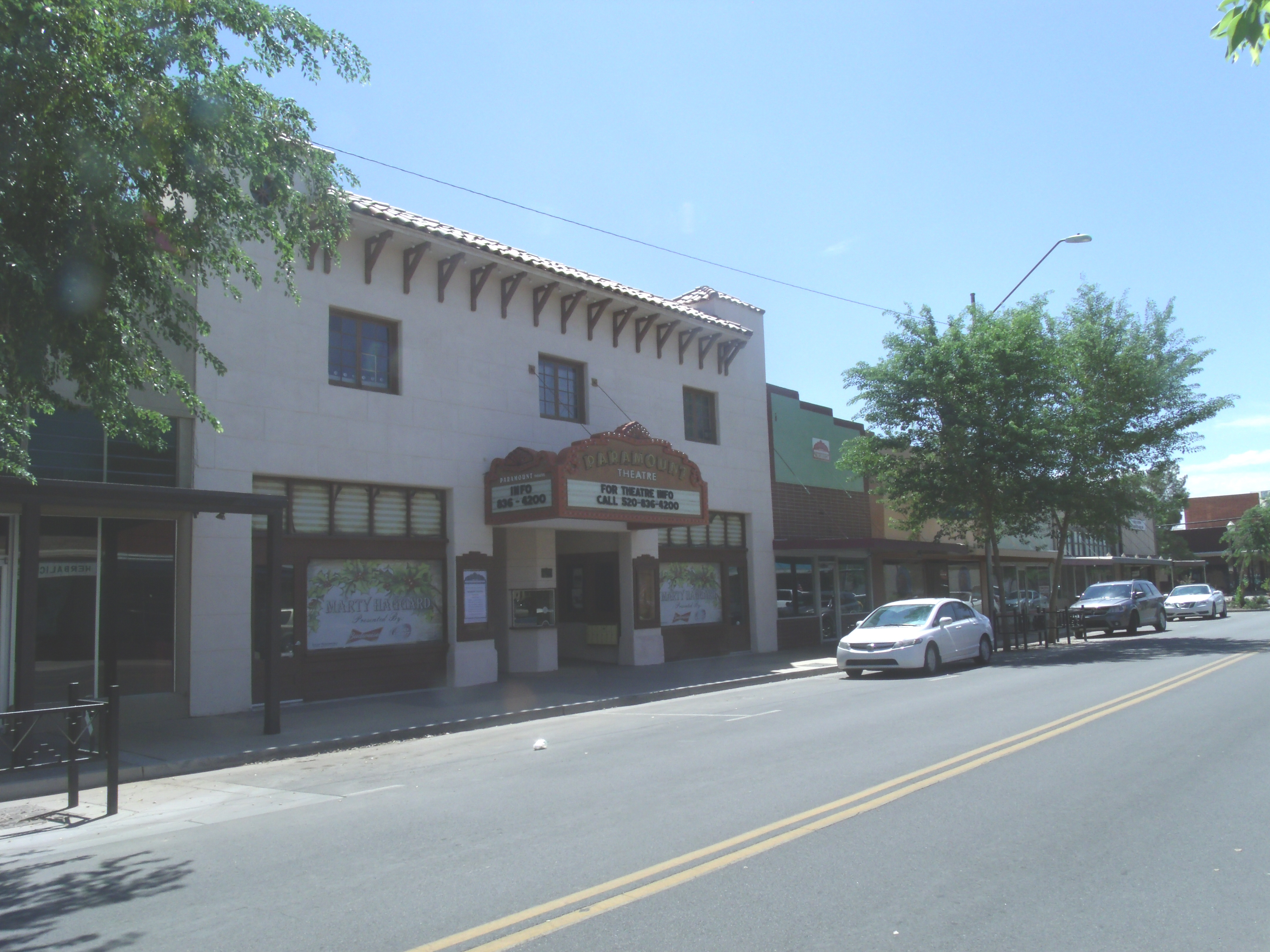 Scene of Florence Street in the Old Casa Grande downtown.